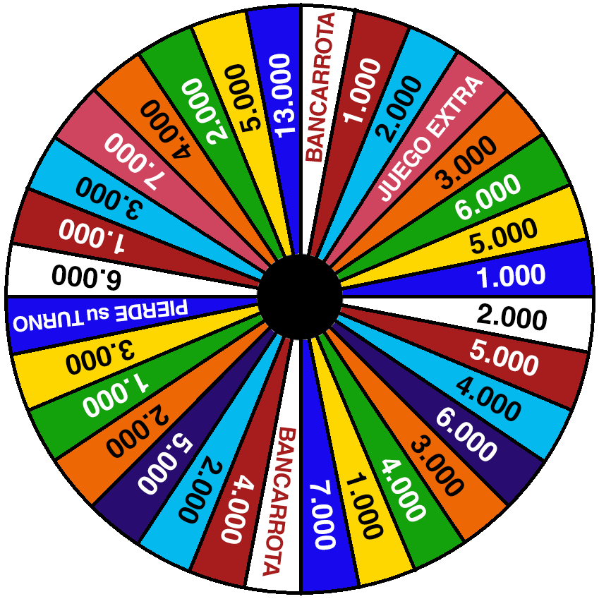 The wheel used on the Chilean version of Wheel of Fortune ("La Rueda de la Fortuna"), aired in 1979 by Canal 13.